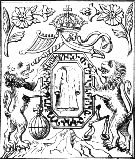 The coat of arms of the Bagrationi family. From the Georgian Bible published in Moscow in 1743. The image is taken from Brosset (Marie-Félicité, M.), Chronique géorgienne, traduite par m. Brosset jeune membre de la Société asiatique de France. De l'Imprimerie Royale, 1830